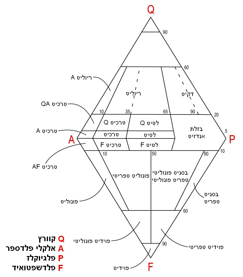 QAPF diagram for classification of volcanic rocks, Hebrew